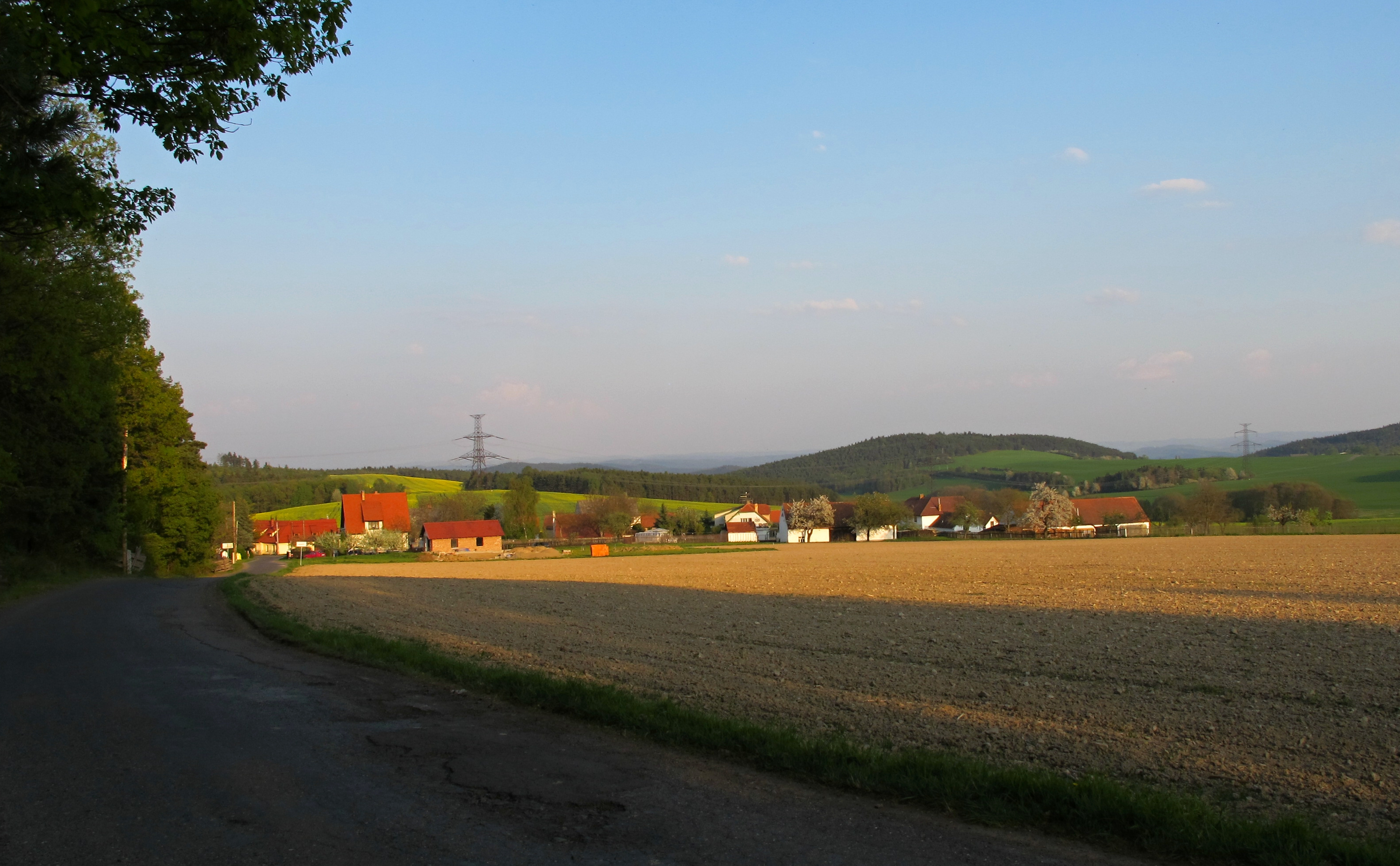 village Chramiště near Nový Knín, central part of Czech Repuvlic